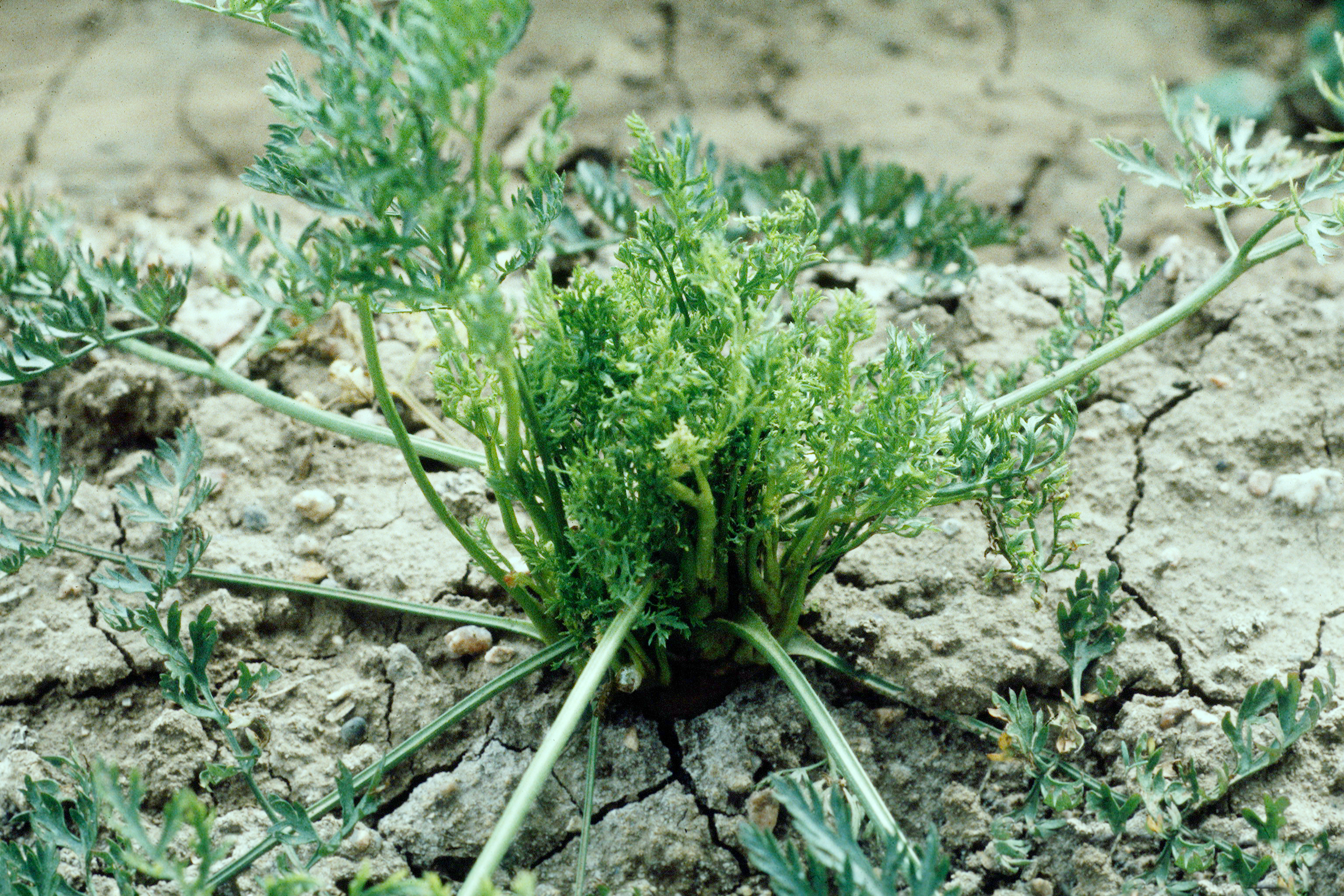 Photo of carrot foliage showing symptoms of aster yellow phytoplasma infection